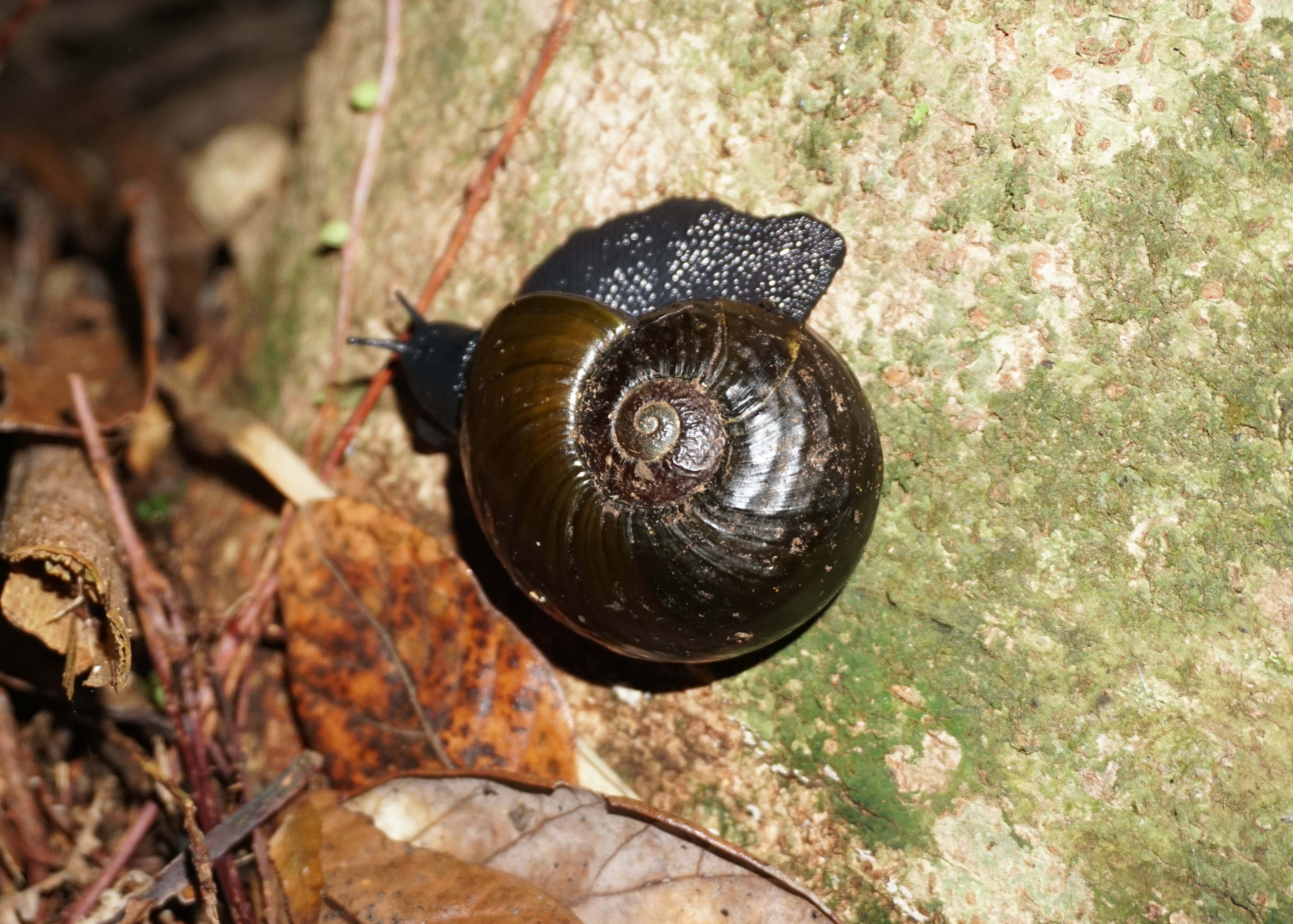 Kauri snail Paryphanta busbyi photographed at night at Waipoua Forest 16th April 2018